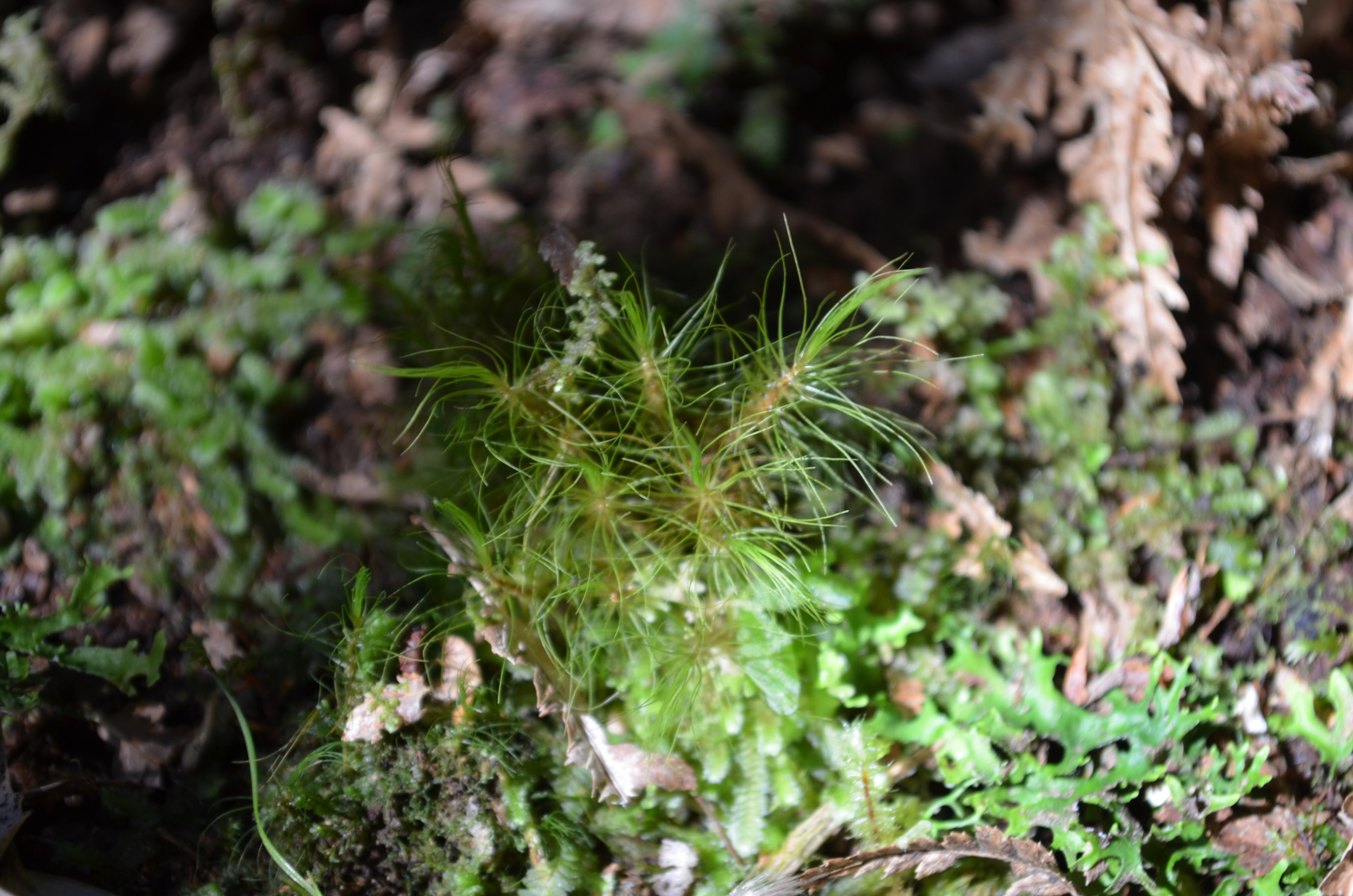 Dicranoloma menziesii spotted in Mt. Field